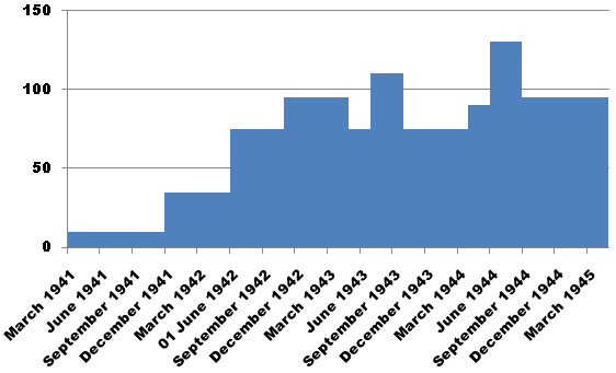 Number of signals despatched daily form Bletchley Park Hut 3 during WWII. From Appendix V of Bennett, Ralph (1999) [1994], Behind the Battle: Intelligence in the War with Germany (Pimlico: New and Enlarged ed.), London: Random House, ISBN 0-7126-6521-8